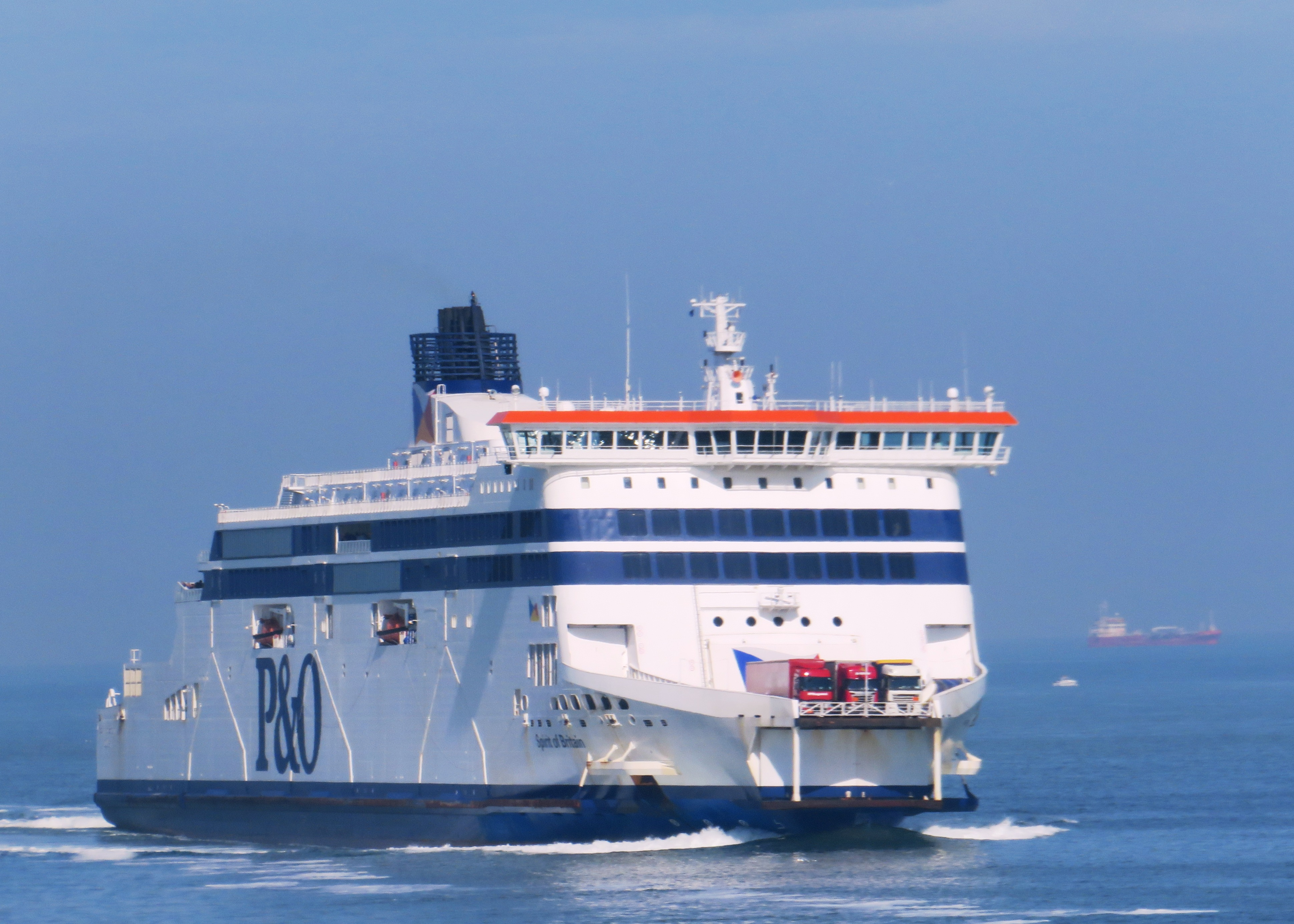 Spirit of Britain 2011 (entered service with P&O) 2017 (photograph)